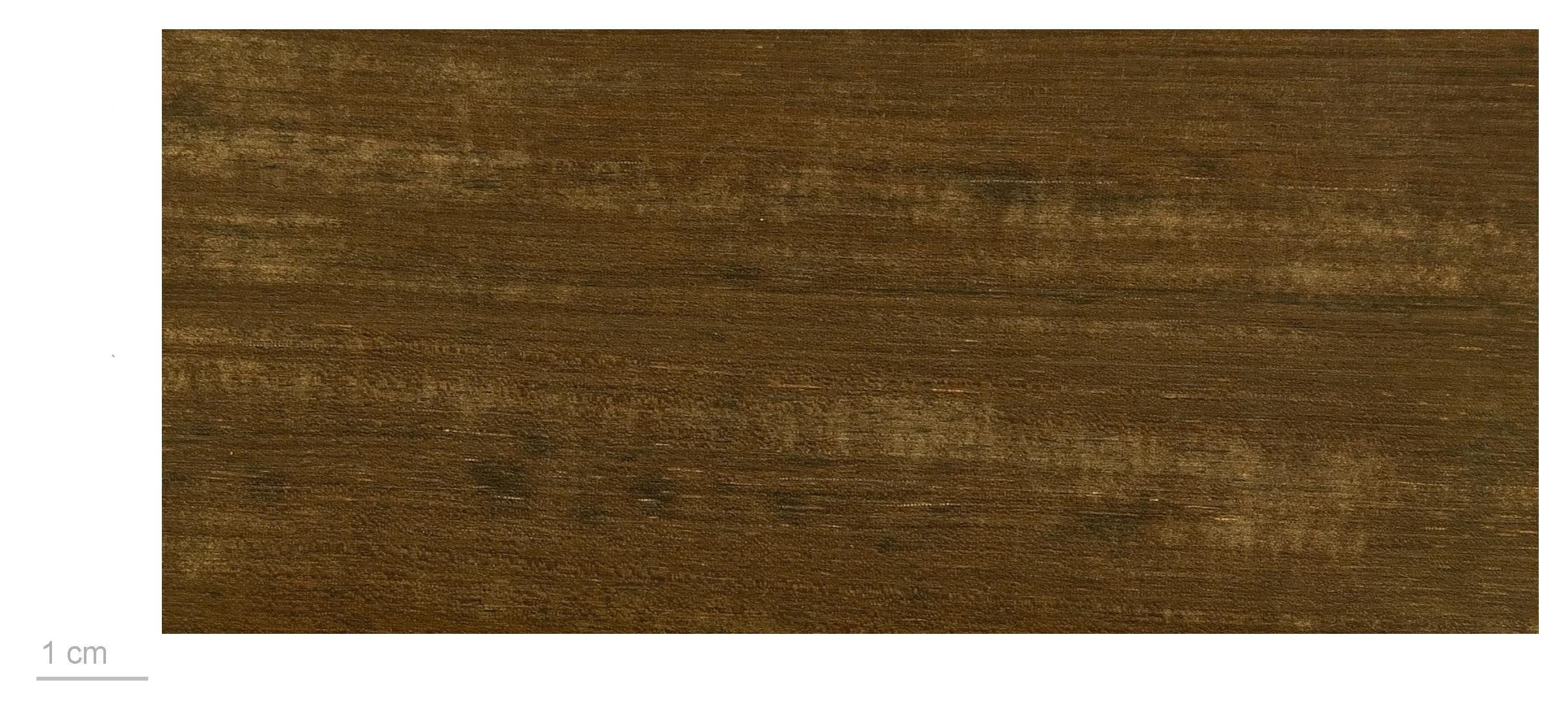 ? , wood